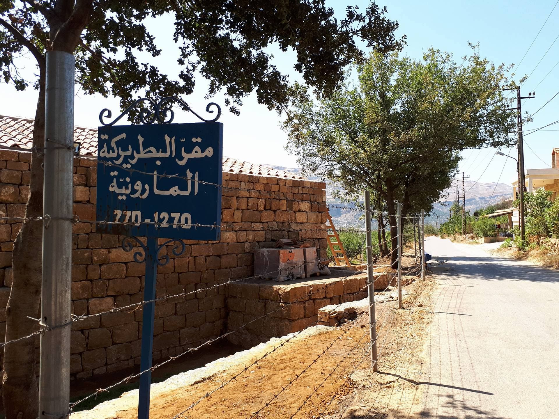 مقر البطركية في المغيري ـ يانوح